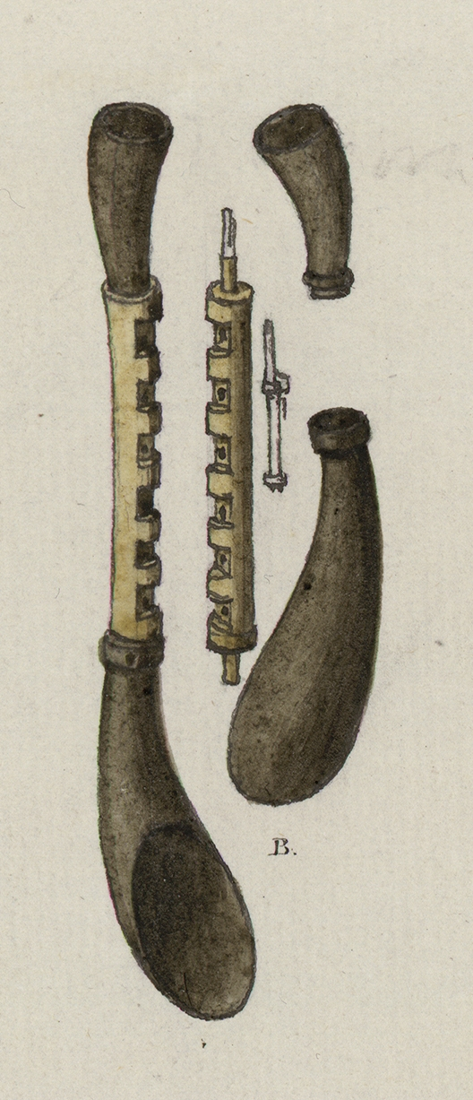 An image from a set of 8 extra-illustrated volumes of A tour in Wales by Thomas Pennant (1726-1798) that chronicle the three journeys he made through Wales between 1773 and 1776. These volumes are unique because they were compiled for Pennant's own library at Downing. This edition was produced in 1781. The volumes include a number of original drawings by Moses Griffiths, Ingleby and other well known artists of the period. Thomas Pennant (1726-1798)